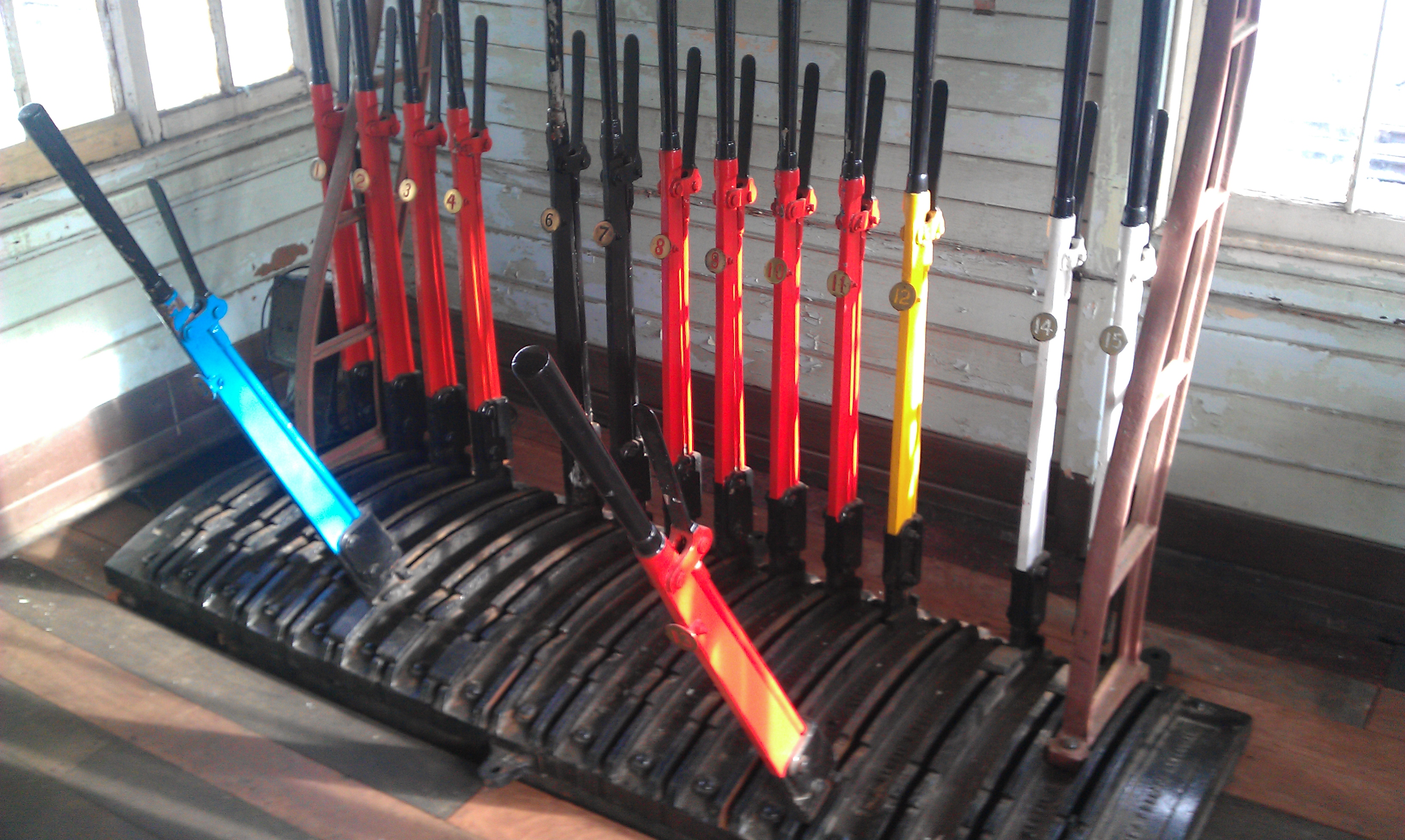 The new Wagin Lever Frame, Installed in the former Cottesloe Signal Cabin at Mussel Pool. Bennett Brook Railway, Western Australia.